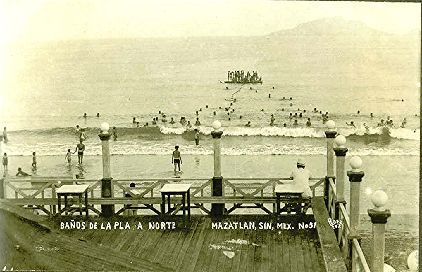 Mazatlán Antiguo